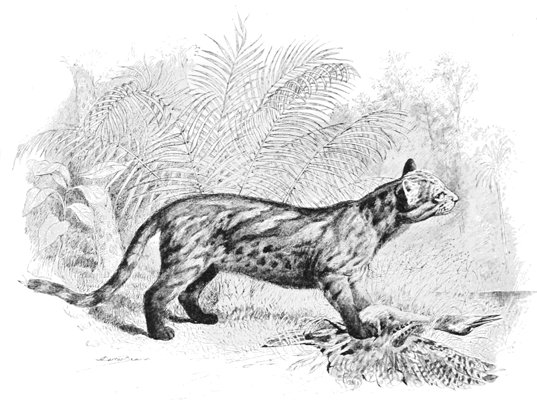 Felis bracatta from southern Brazil